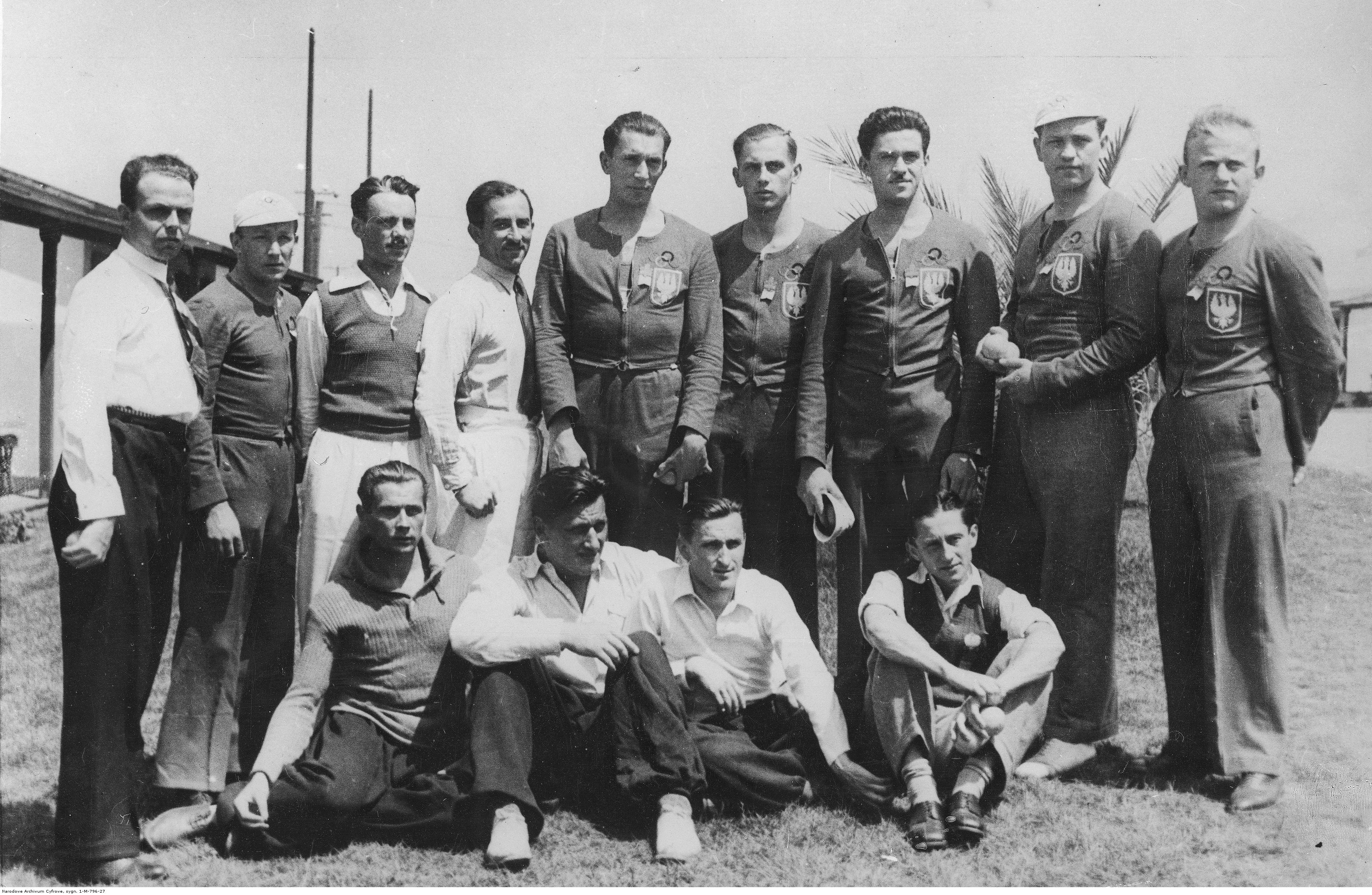 Summer Olympics in Los Angeles. A group of Polish athletes in the Olympic village in Baldwin Hills. Standing from the left: swordsman Tadeusz Friedrich, rower, Jan Mikołajczak, swordsmen: Marian Suski and Władysław Dobrowolski; rowers: Janusz Ślązak, Jerzy Braun, Edward Kobyliński, Stanisław Urban, Henryk Budziński. Seated from the left: Zygmunt Siedlecki (decathlon), Zygmunt Heljasz (shot put), Janusz Kusociński (10,000 m) and coxswain Jerzy Skolimowski.